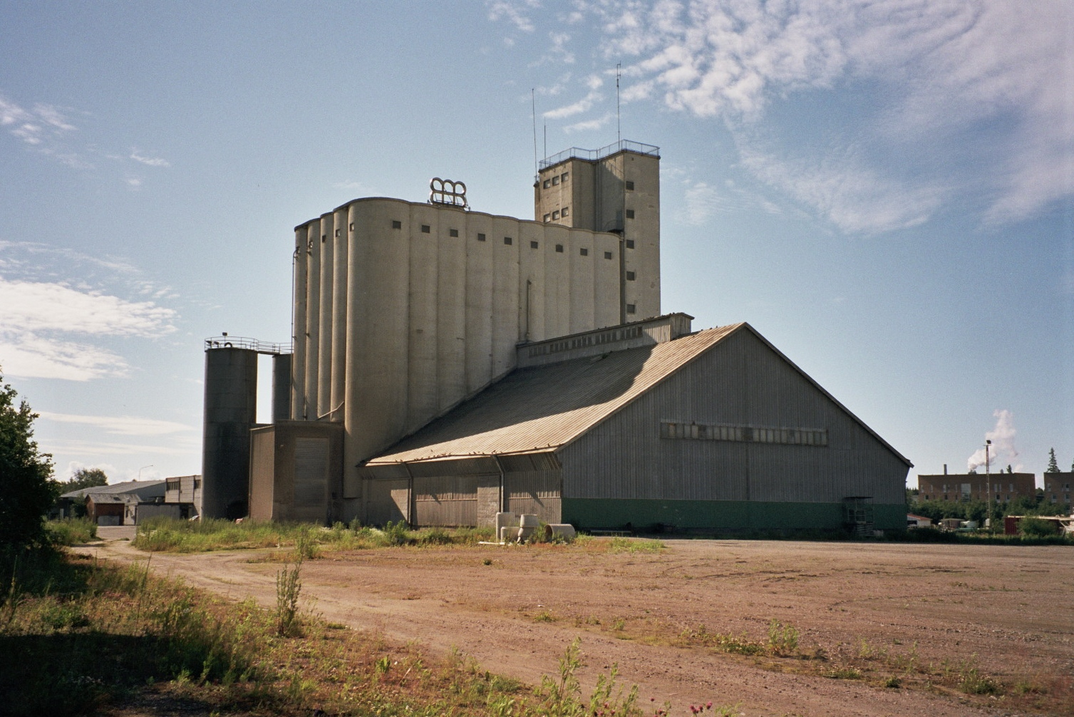 The feed plant of Rehuraisio (a part of Raisio Group) in the harbour of Toppila, Oulu, Finland.